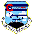 Colo Air National Guard emblem, very low resolutiom